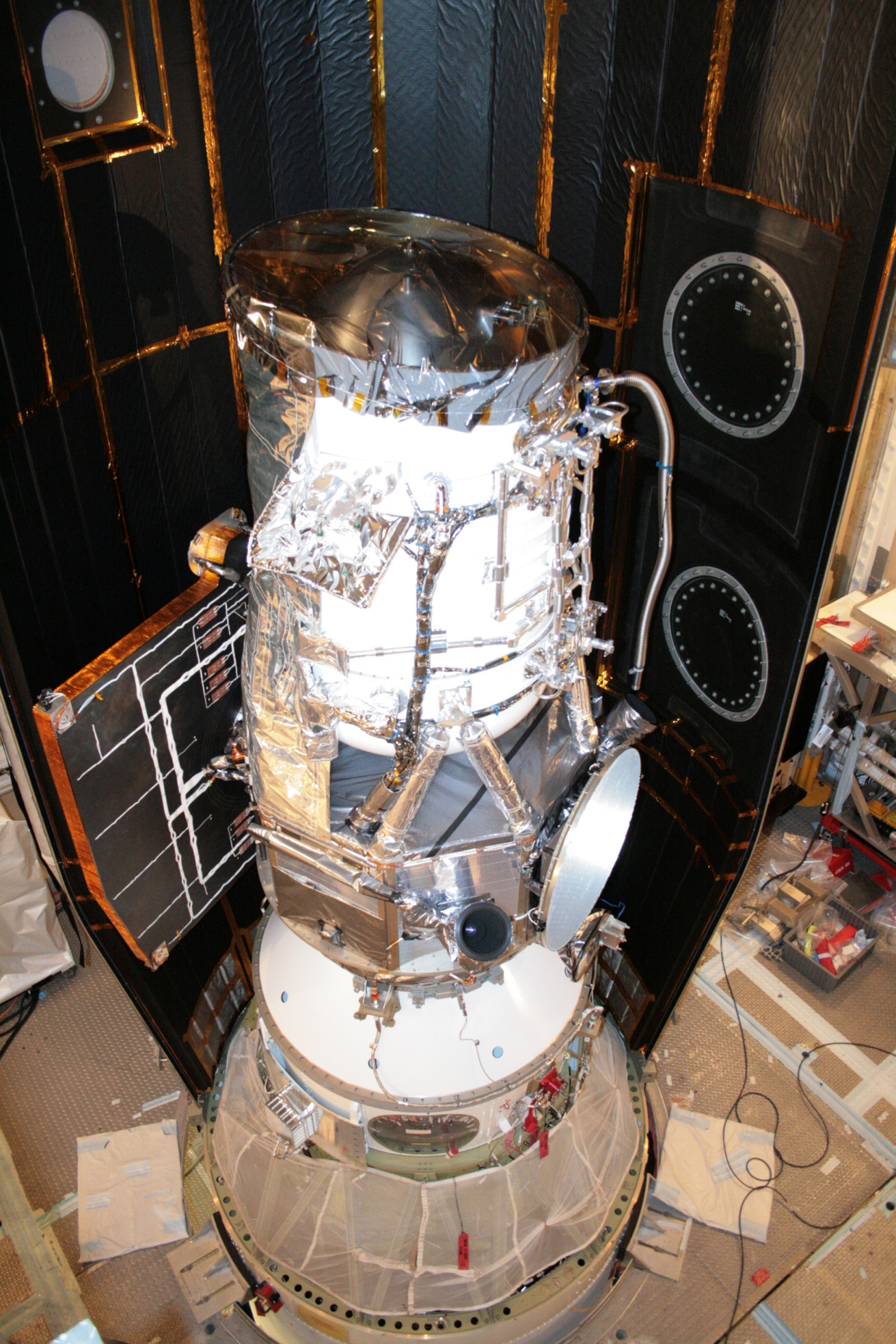 VANDENBERG AIR FORCE BASE, Calif. - The Delta II payload fairing will soon enfold NASA's Wide-field Infrared Survey Explorer, or WISE, in the White Room at Space Launch Complex 2 at Vandenberg Air Force Base in California. The fairing protects the spacecraft from aerodynamic forces during launch. WISE will survey the entire sky at infrared wavelengths, creating a cosmic clearinghouse of hundreds of millions of objects which will be catalogued and provide a vast storehouse of knowledge about the solar system, the Milky Way, and the universe. Launch is scheduled for Dec. 9. For additional information, visit